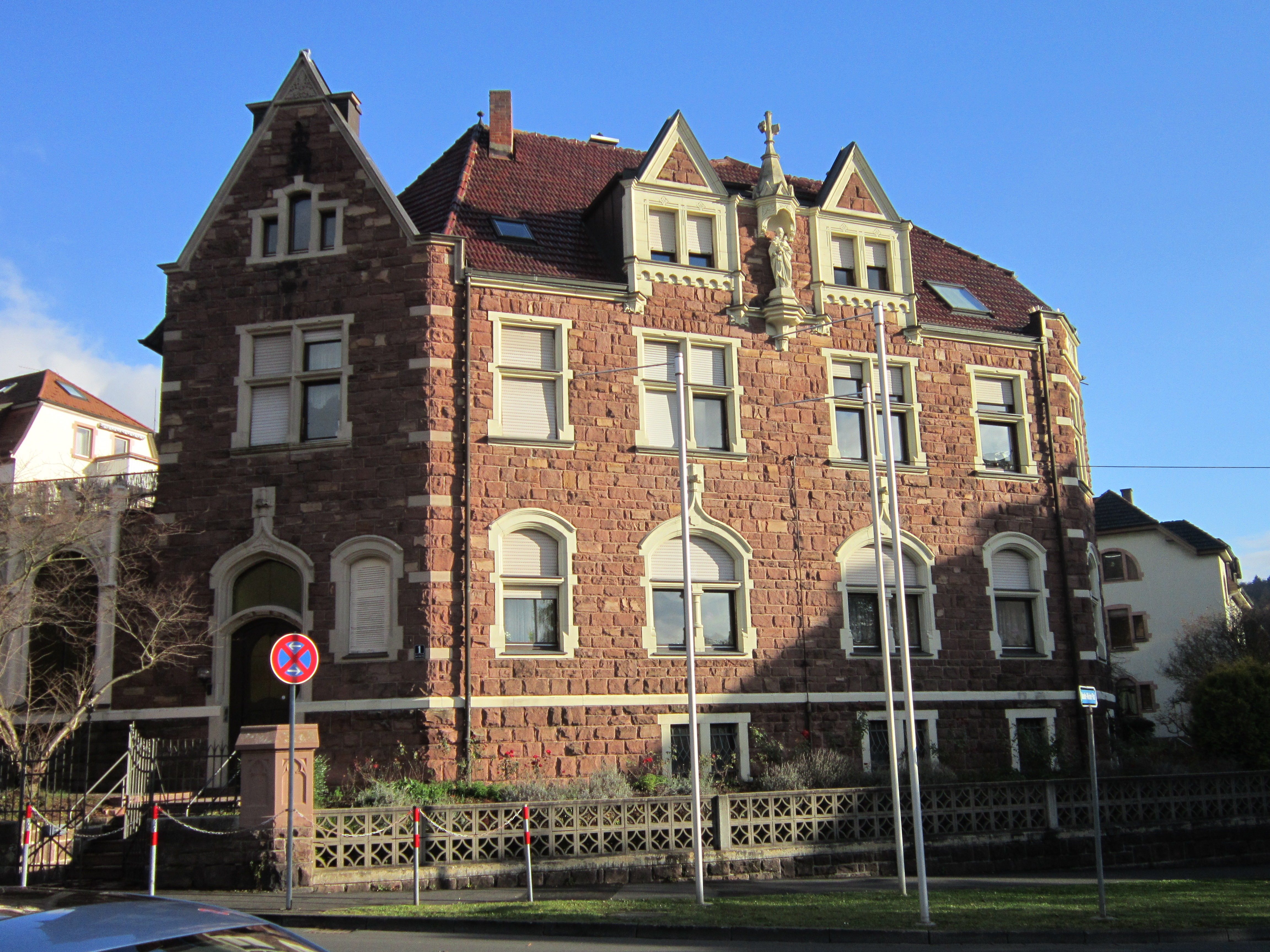 Dwelling house of sculptor Valentin Weidner in the German spa town of Bad Kissingen in Lower Franconia (Bavaria).